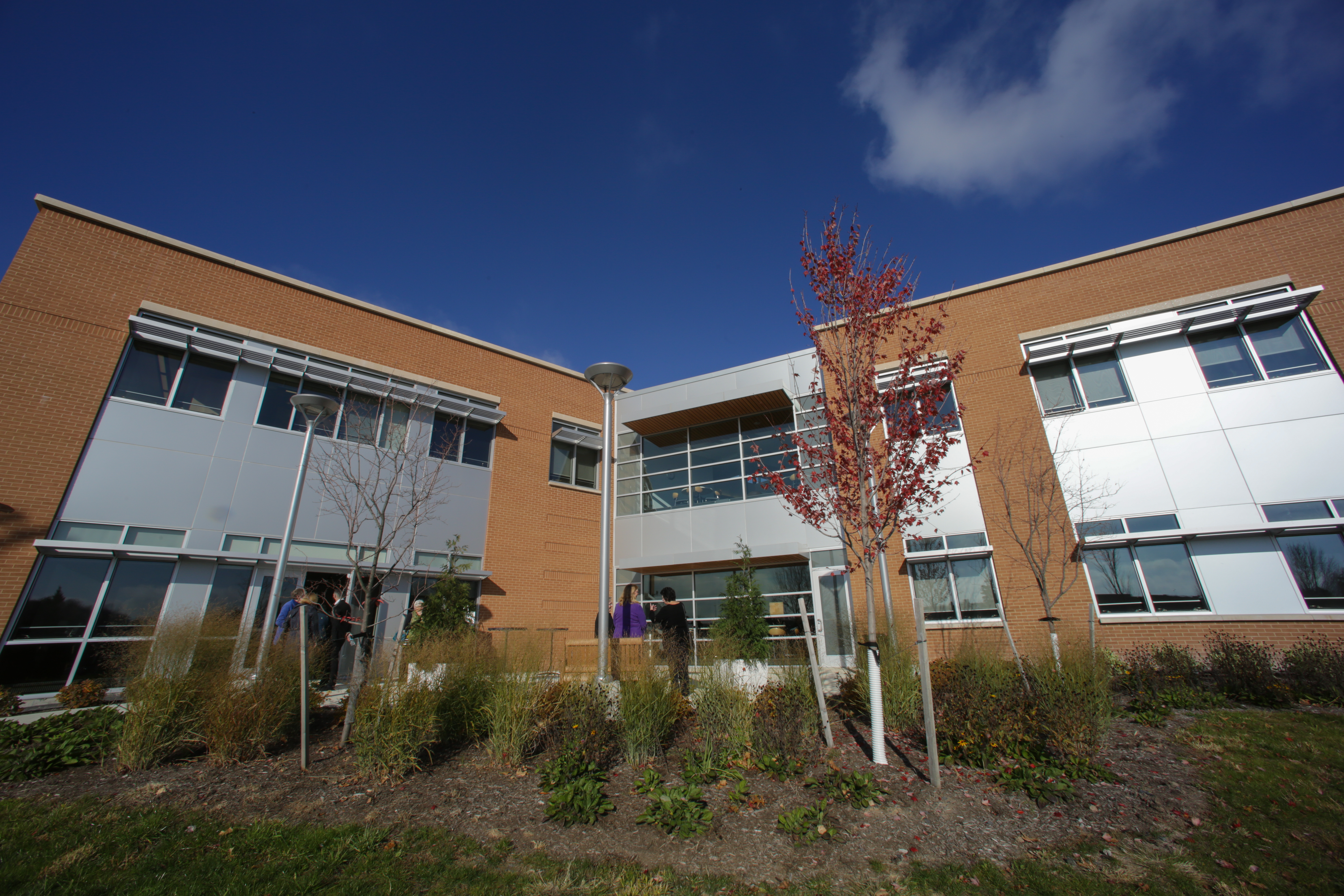 photo of Empire State College Rochester location